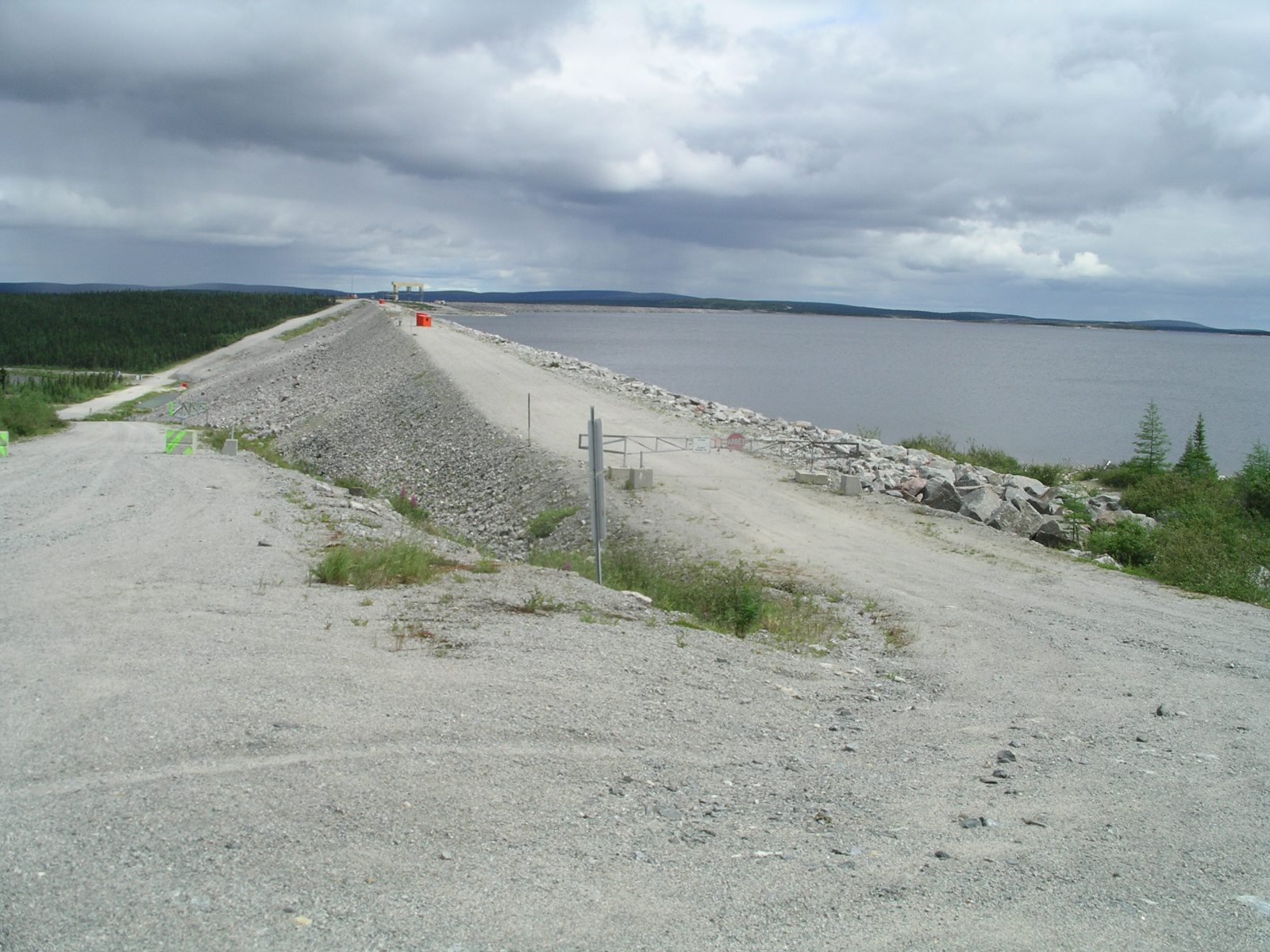 The KA-5 dam and the Duplanter spillway (back) close the Caniapiscau Reservoir, in Northern Quebec.